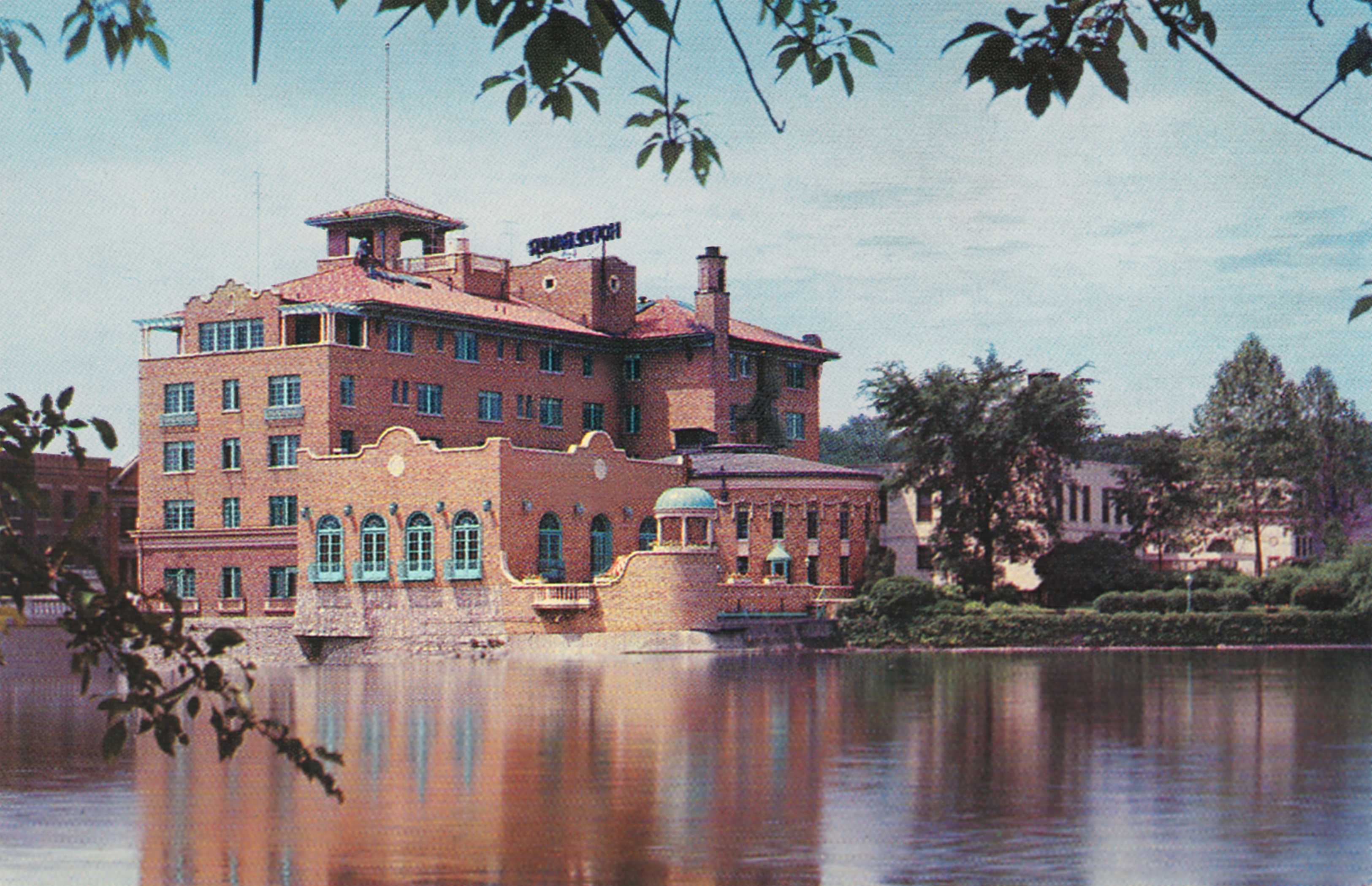 Ektachrome by John Freeman Post Card 20007 published by Freeman Studios, Berrien Springs, Mich. Back of card reads: Hotel Baker St. Charles, ILL. The Beauty Spot of the Fox River Valley Restful surroundings. Delightful Cocktail Lounge. Air-conditioned Rainbow Room and Coffee Shop serving the very finest food procurable at popular prices. A million dollar hotel known as one of America's finest. Just thirty miles west of Chicago.